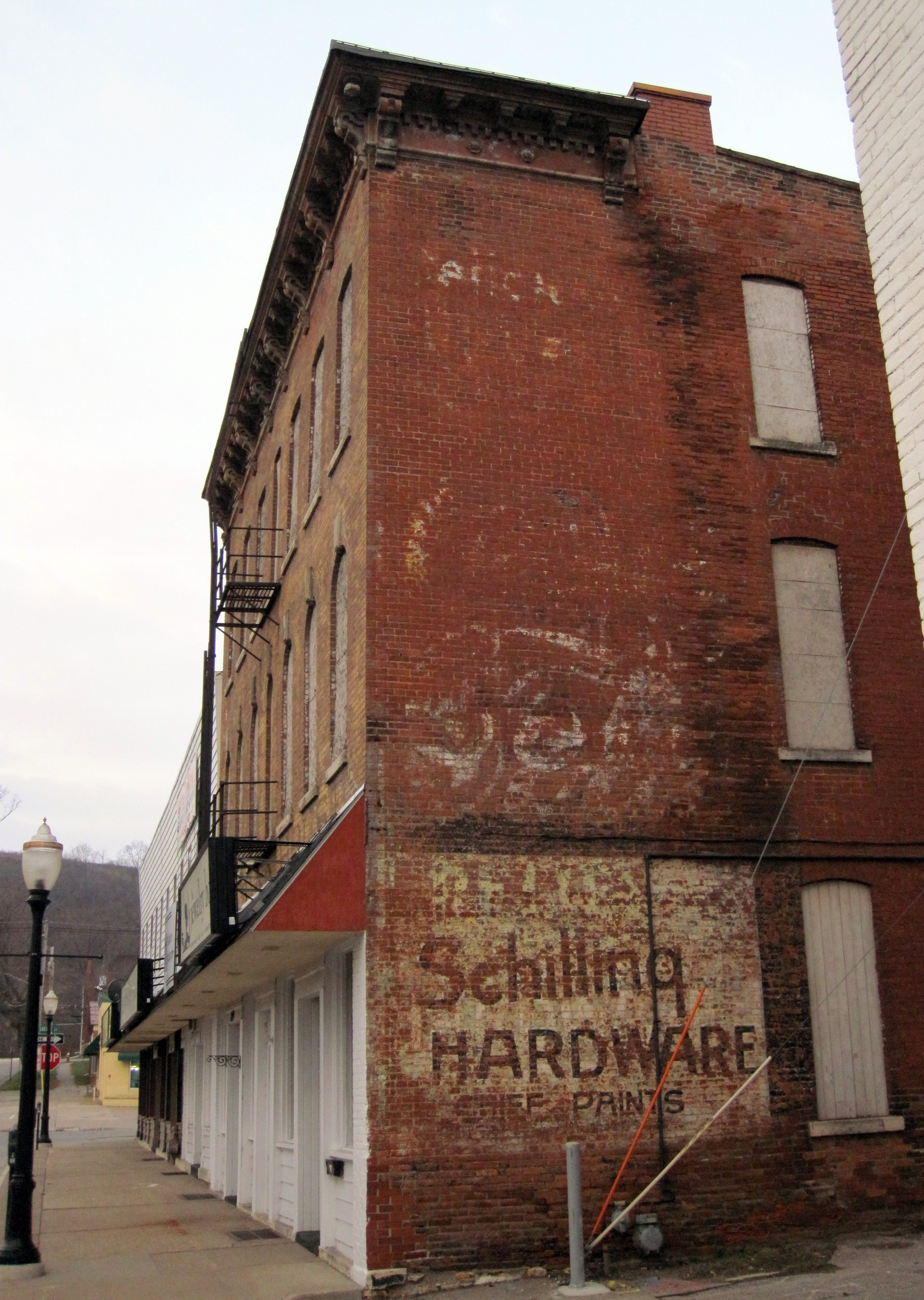 Ghost sign, Dubuque. Part of a series.